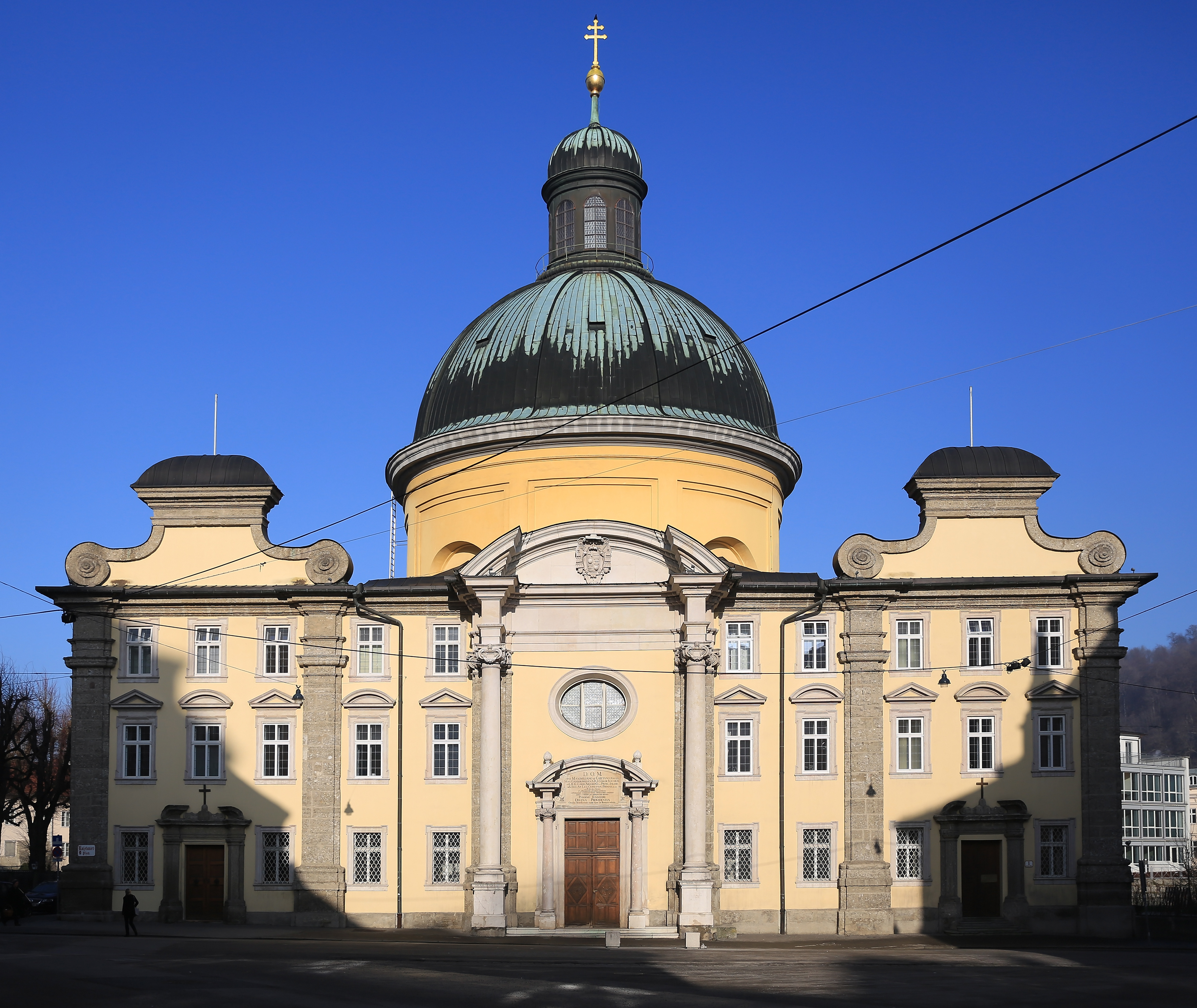 Kajetanerkirche in Salzburg, Austria.